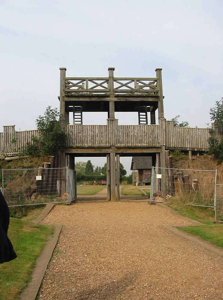 The reconstructed main entrance gate to Lunt Roman Fort near Coventry, UK.